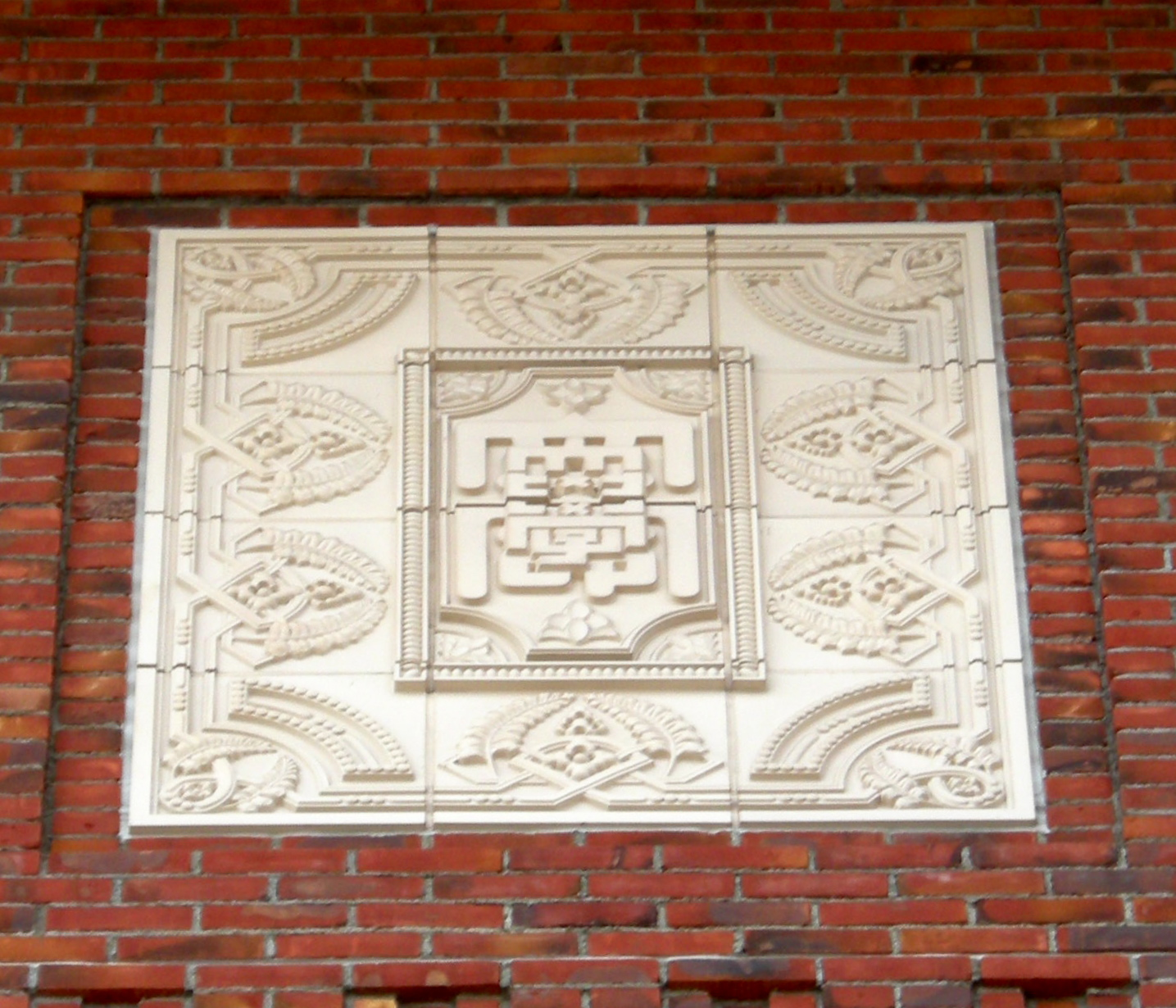 Surface embellishment made of terra cotta (Nakagawa Hall of Ritsumeikan University, Kyoto, Japan)